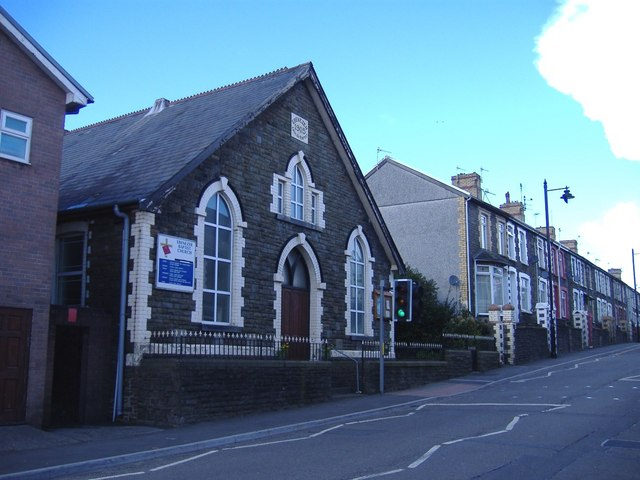 Ebenezer Chapel De Winton Terrace, Llanbradach